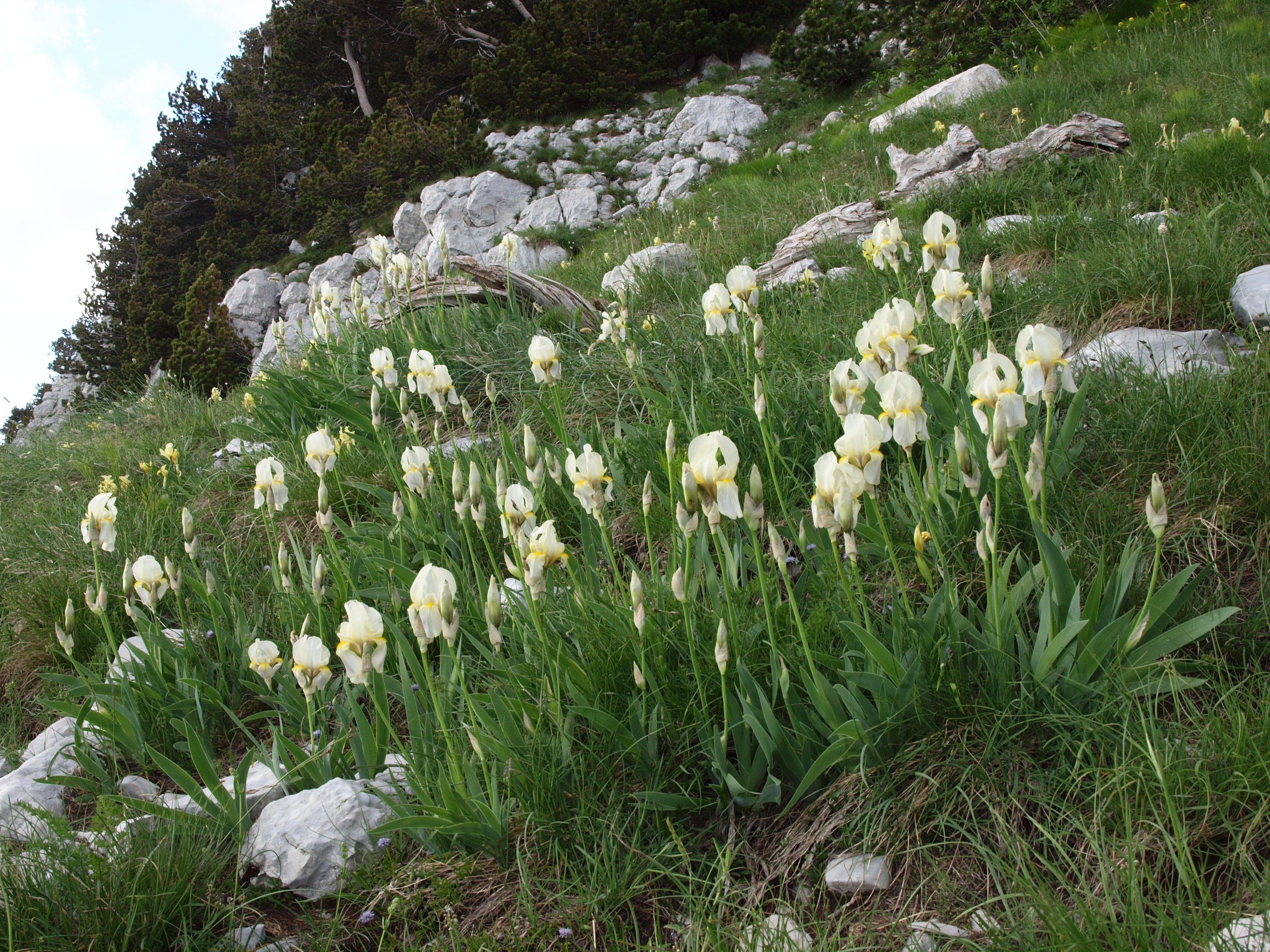 Iris orjenii in the wild